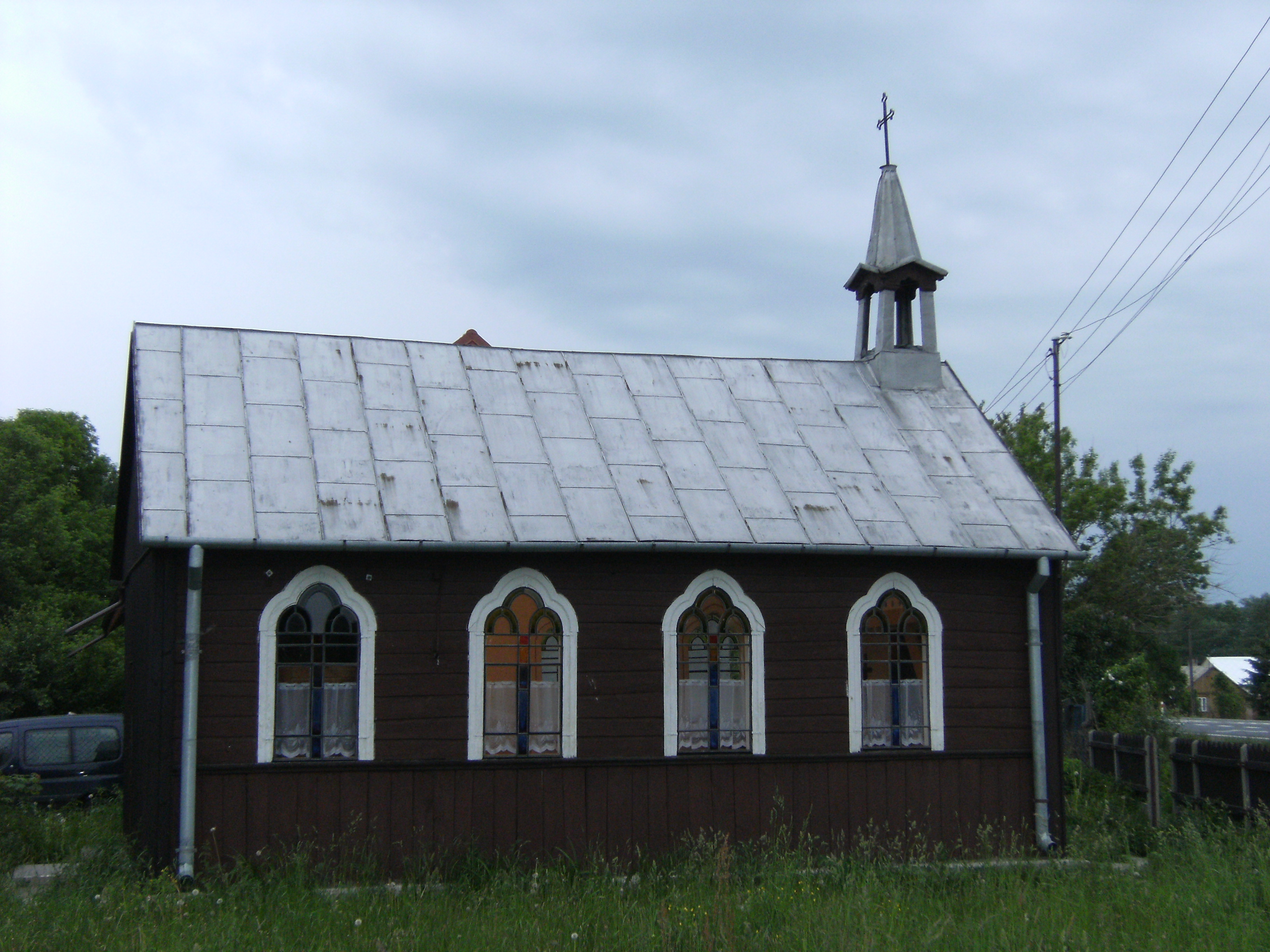 Mariavite Chapel in Jędrzejów